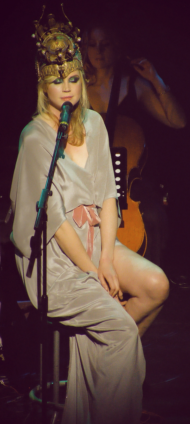 Actress Gwendoline Christie at the London Palladium 15 November 2009, in a performance with Patrick Wolf.